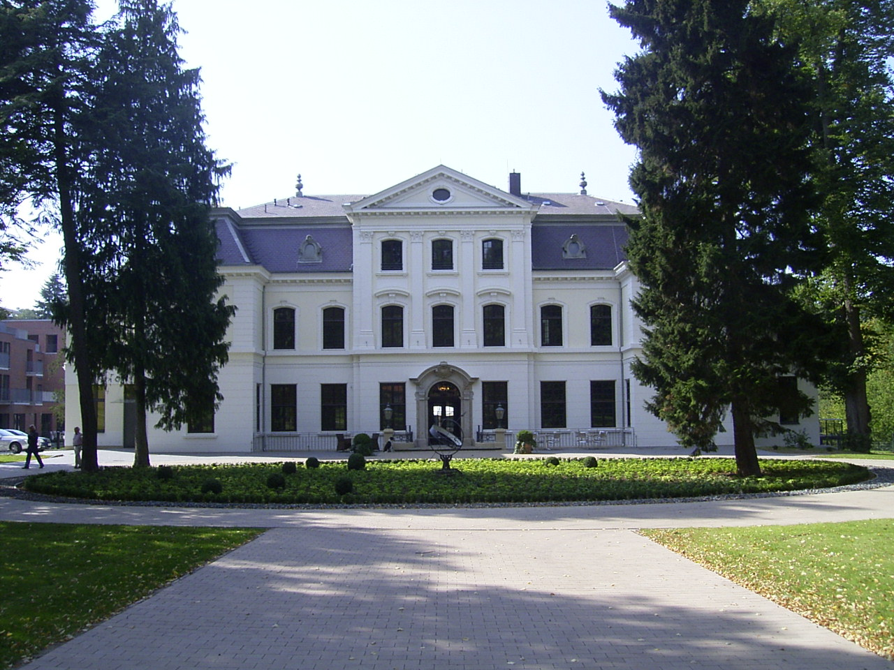 Herrenhaus in Wellingsbüttel . This is a photograph of an architectural monument.